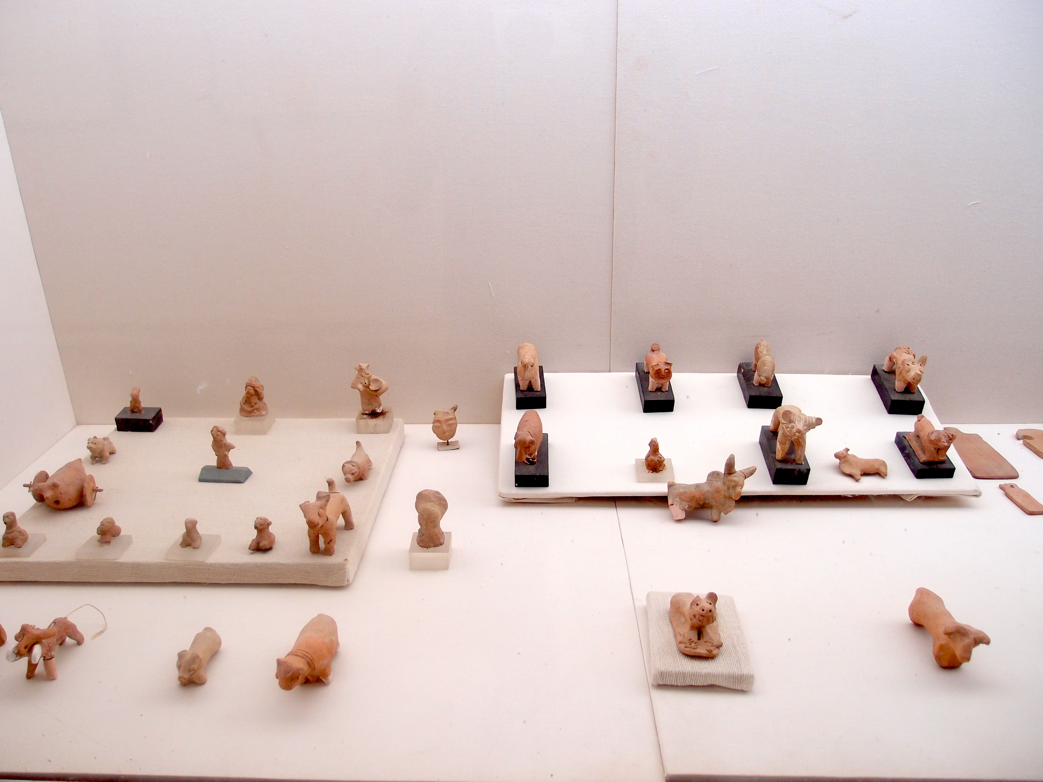 Mohenjo-daro museum relics